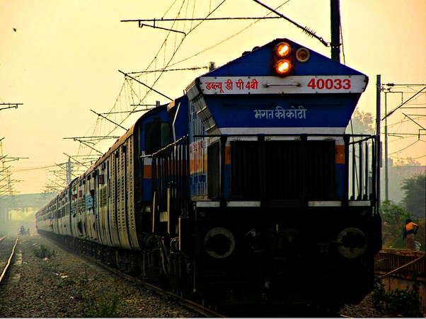 Sapt Kranti Express WDP 4B